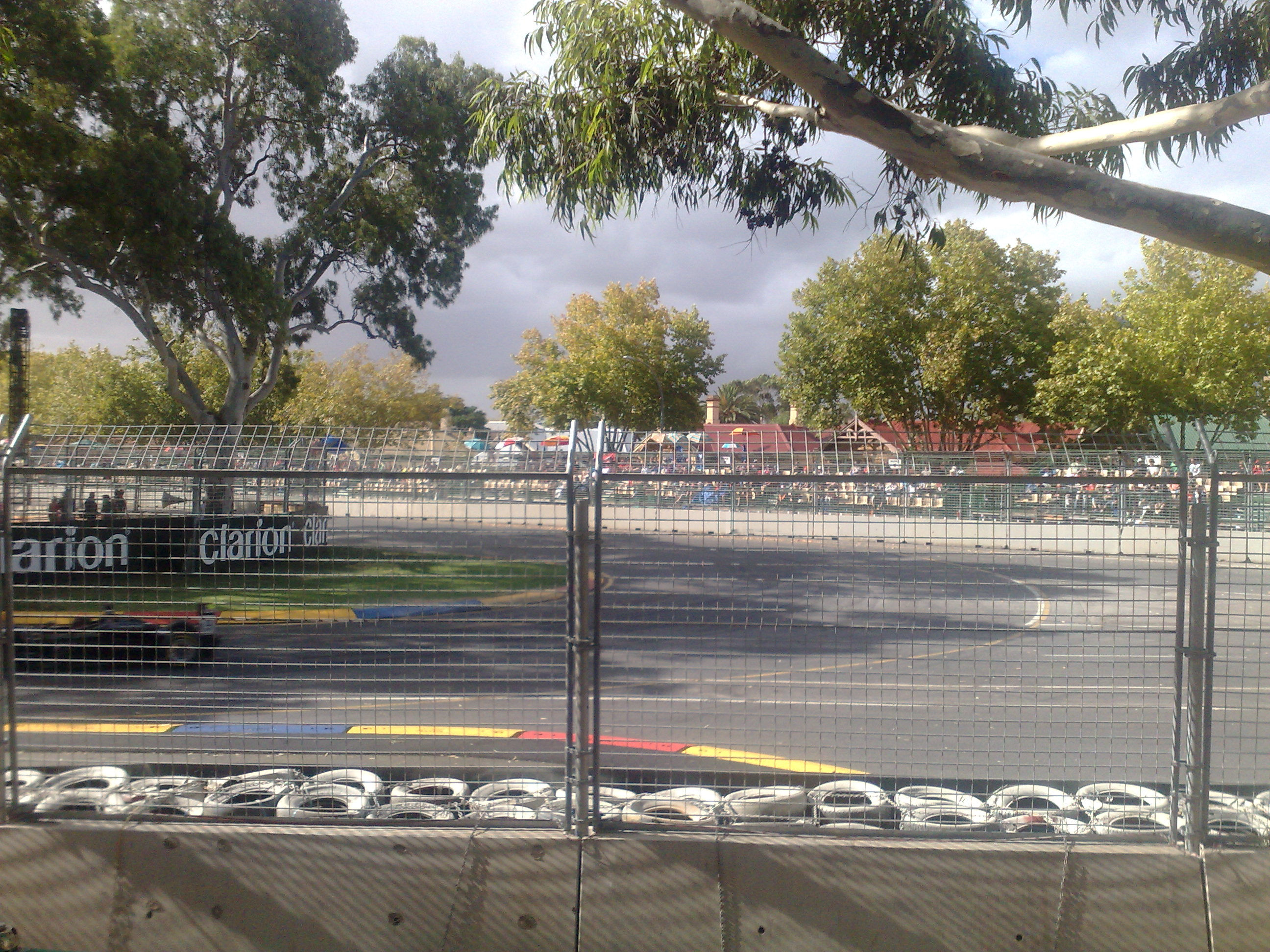 Clipsal 500 - turn 9 in 2008